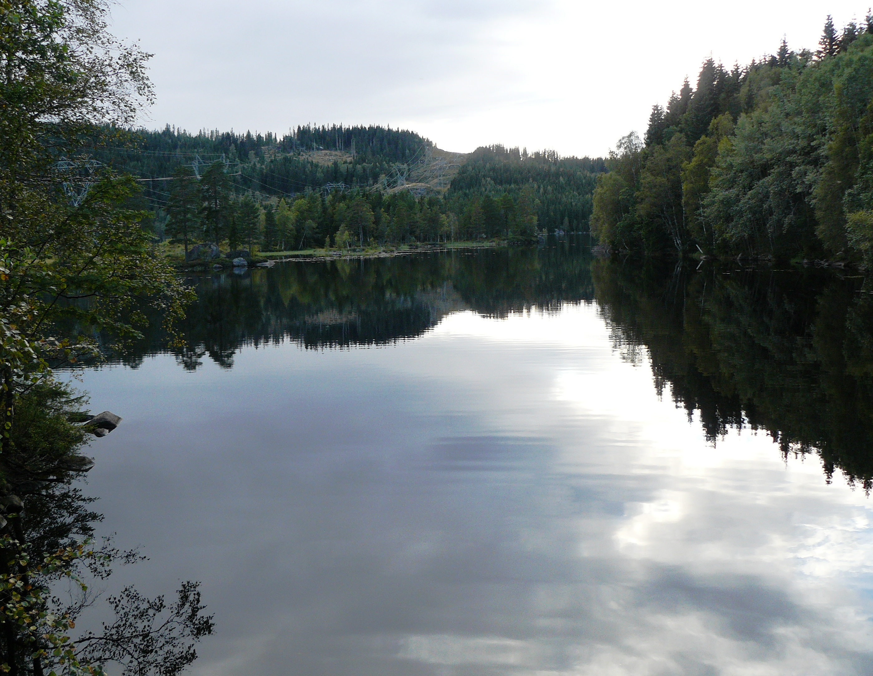 Vestre Fyllingen - a lake in Nordmarka, Oslo, Norway